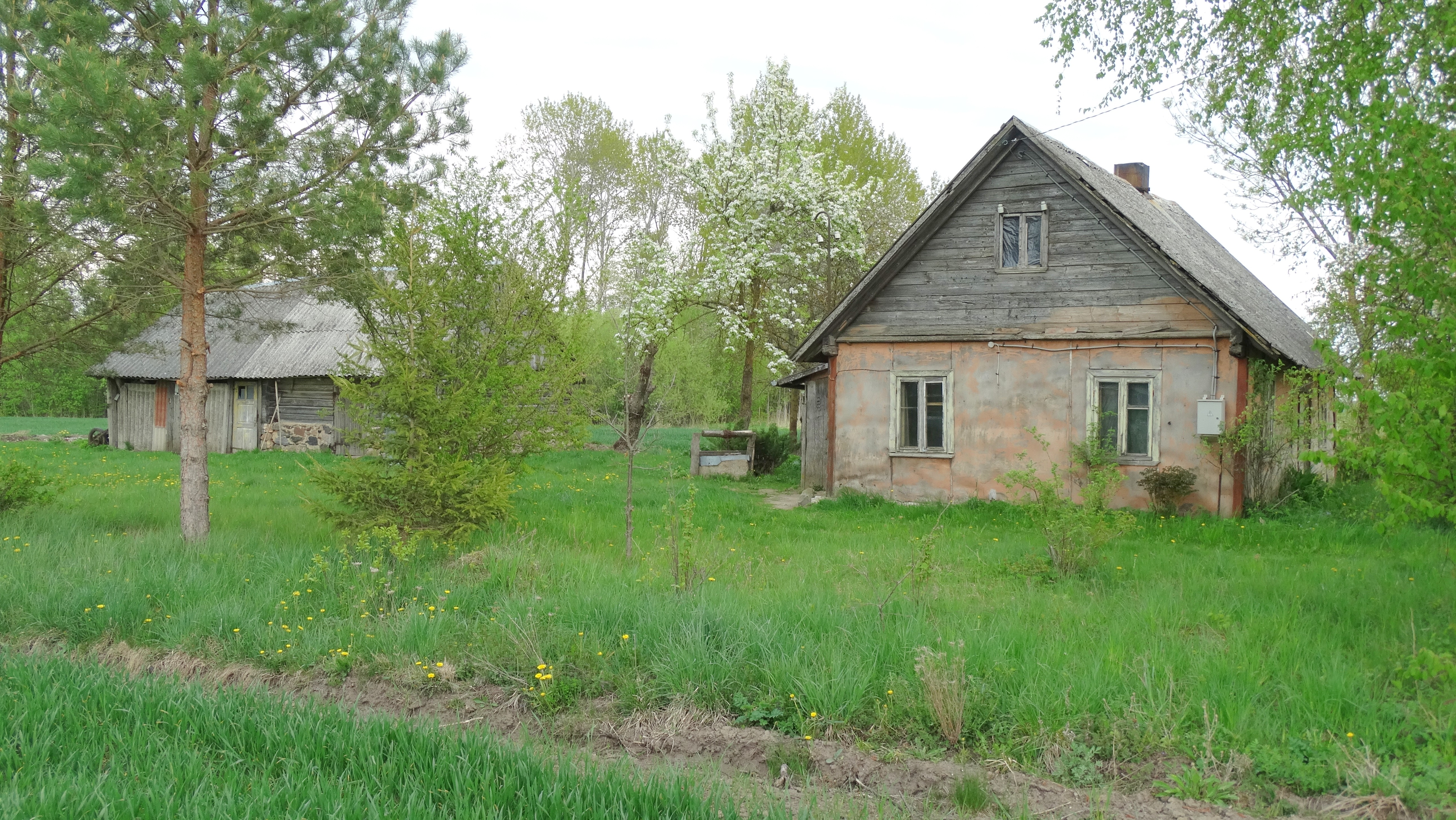 Plikeliai, Pakruojis District, Lithuania